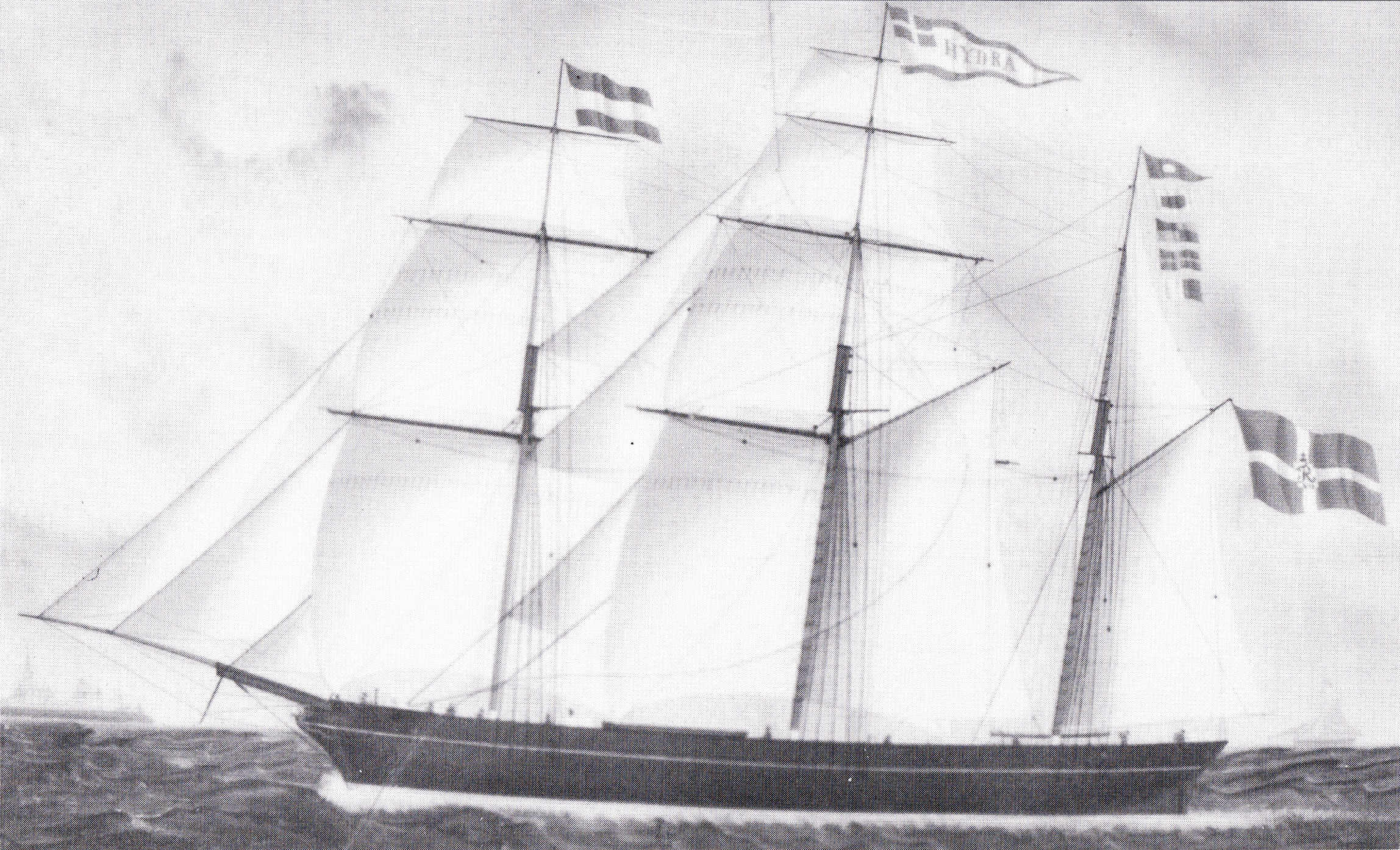 The paddle-steamer Kingston of 1821 seen in its third incarnation - as the barque Hydra - painted on glass by H.C.L. Wyts of Amsterdam in 1861.